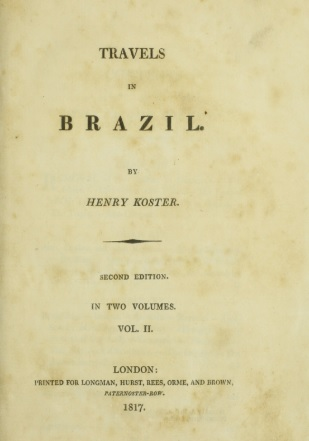 Cover page book HENRY KOSTER, 1817.